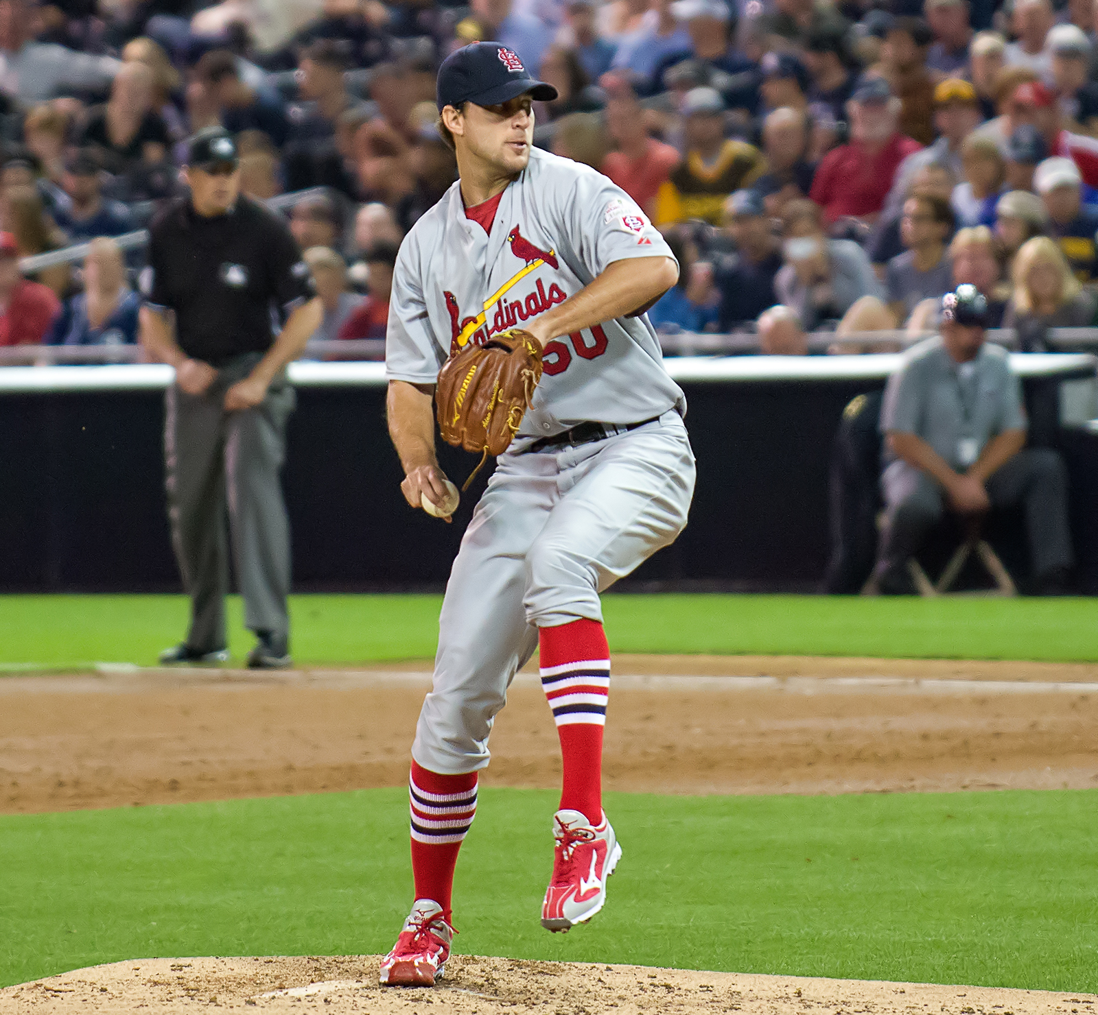 Adam Wainwright major league baseball pitcher for the St. Louis Cardinals Sept. 11 2012 at Petco Park in San Diego California